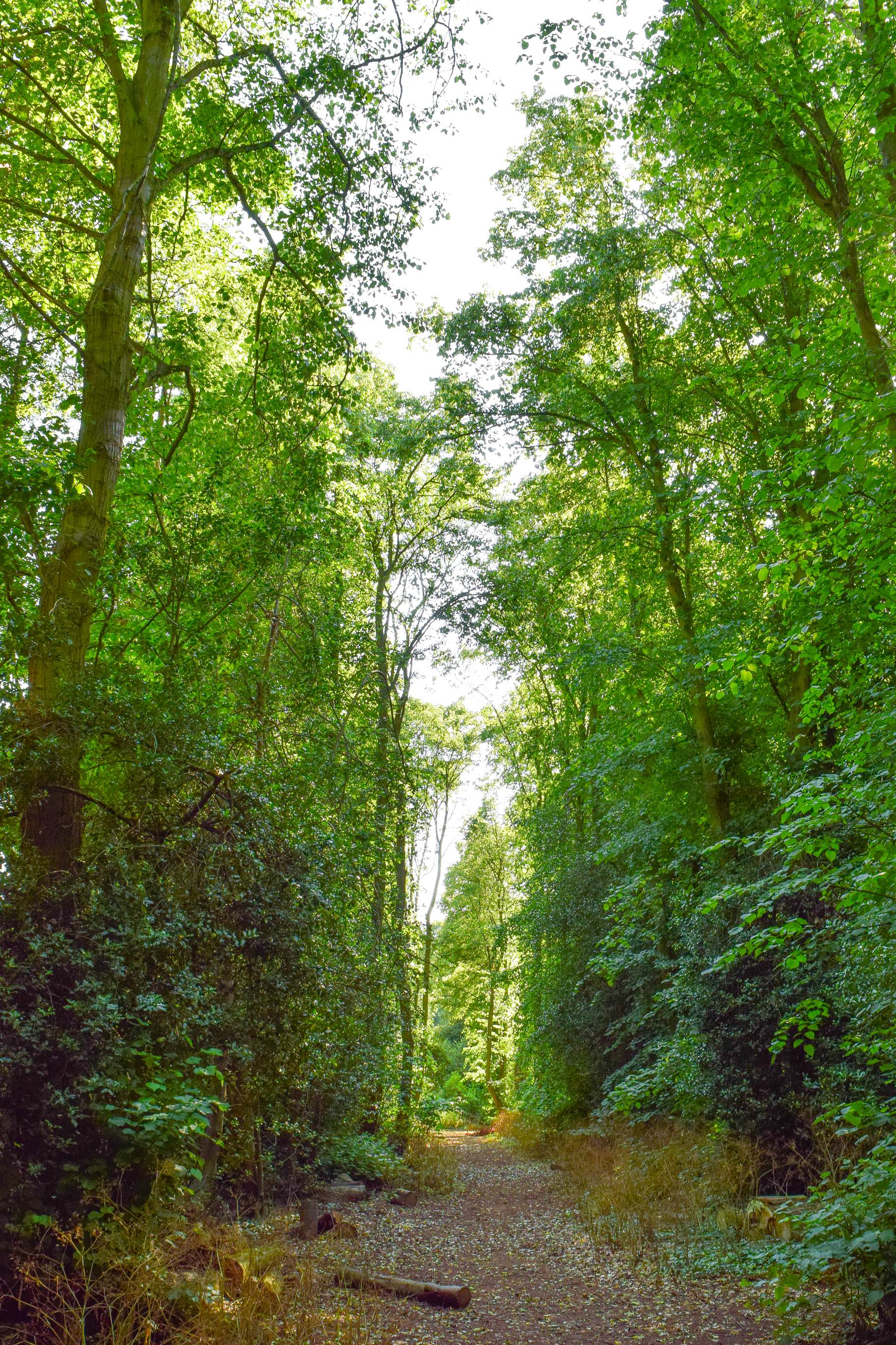 An avenue of Lime trees estimated to be over 300 years old line Holly Walk in the Finedon Pocket Park